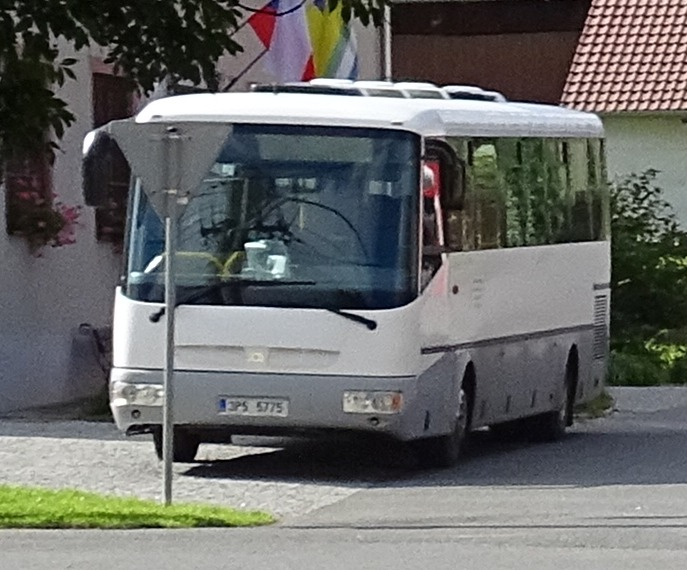 Zvíkovec, Rokycany District, Plzeň Region, the Czechia. A bus in front of the post office.